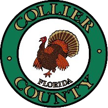 The official seal of Collier County, Florida.